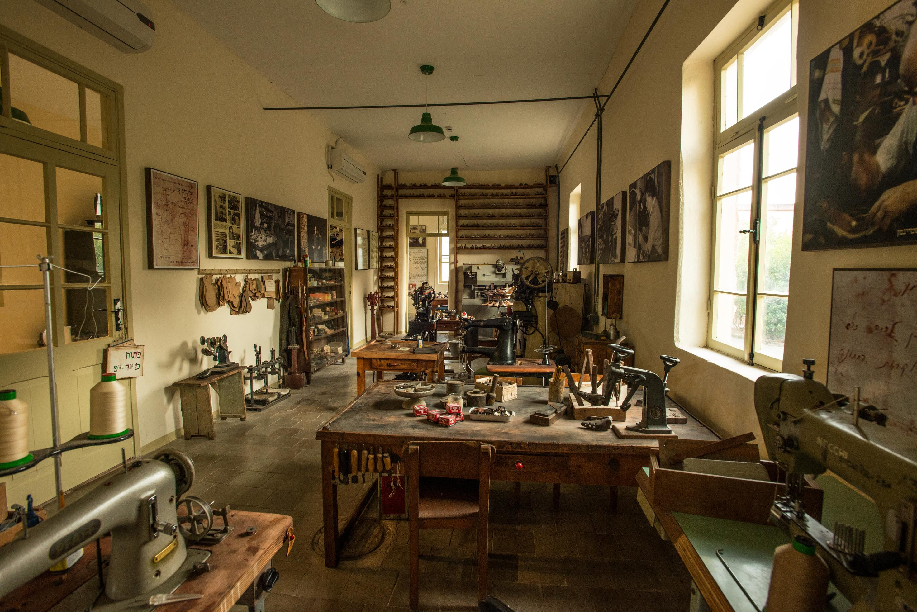 shoe making workshop since 1932 antill today